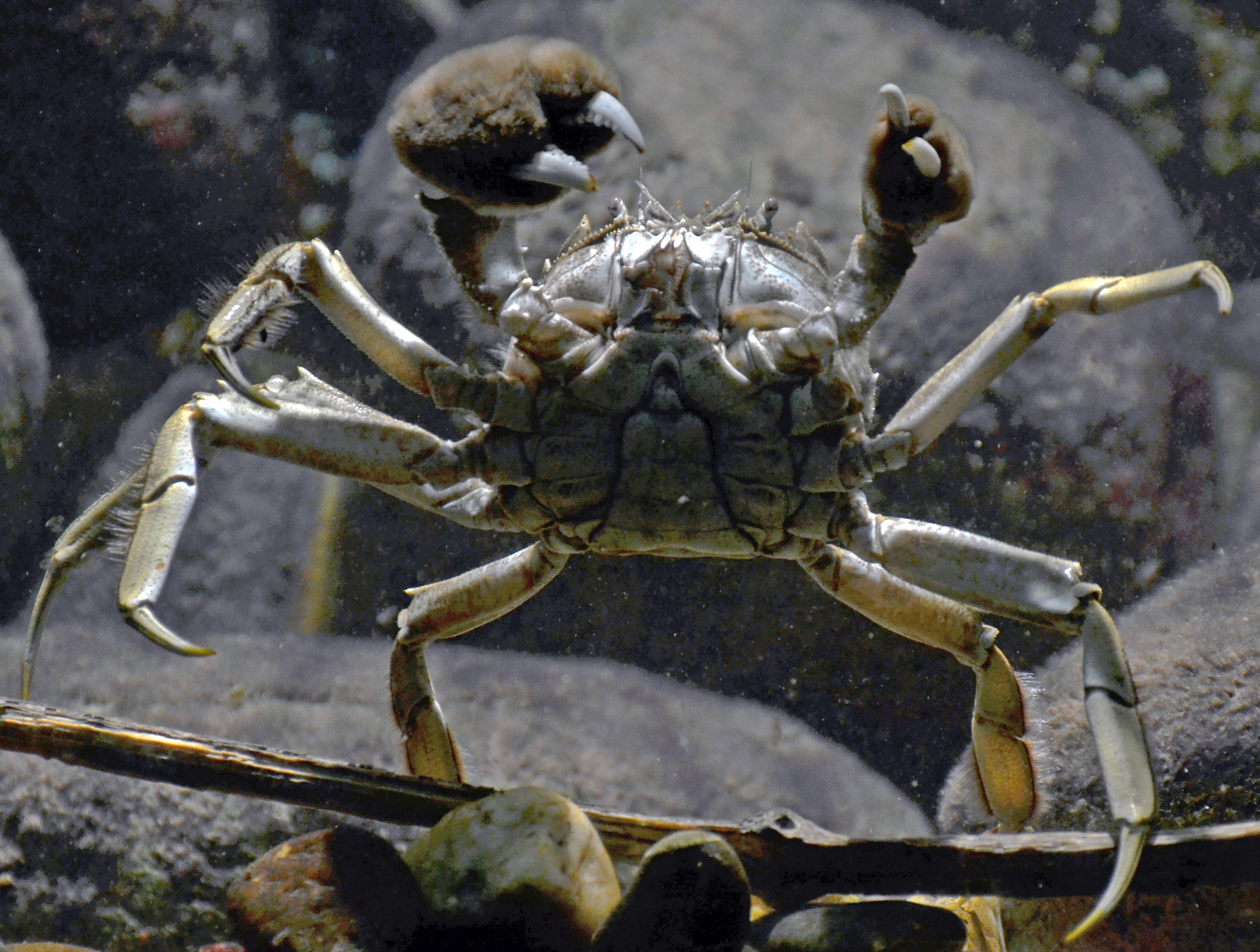 Chinese mitten crab ( Eriocheir sinensis ). Cologne (Köln) Zoo.